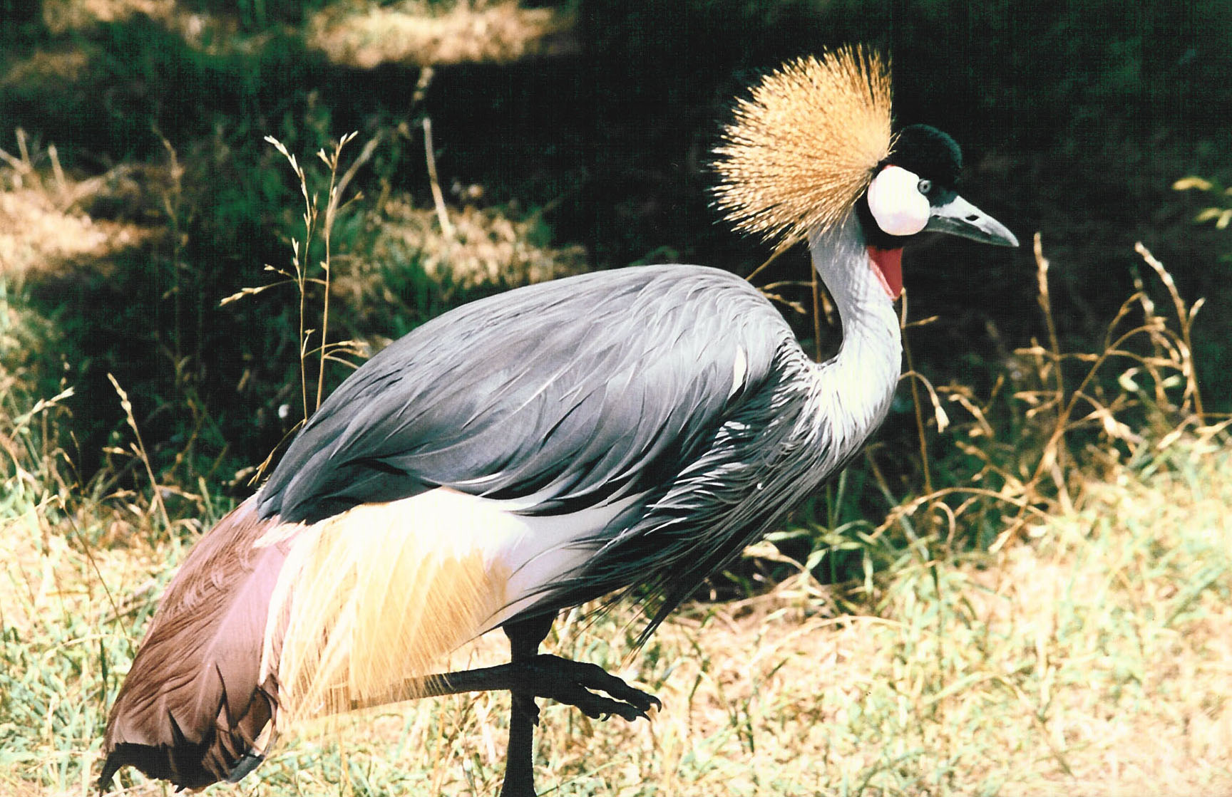 Southern Crowned Crane / Grey Crowned Crane